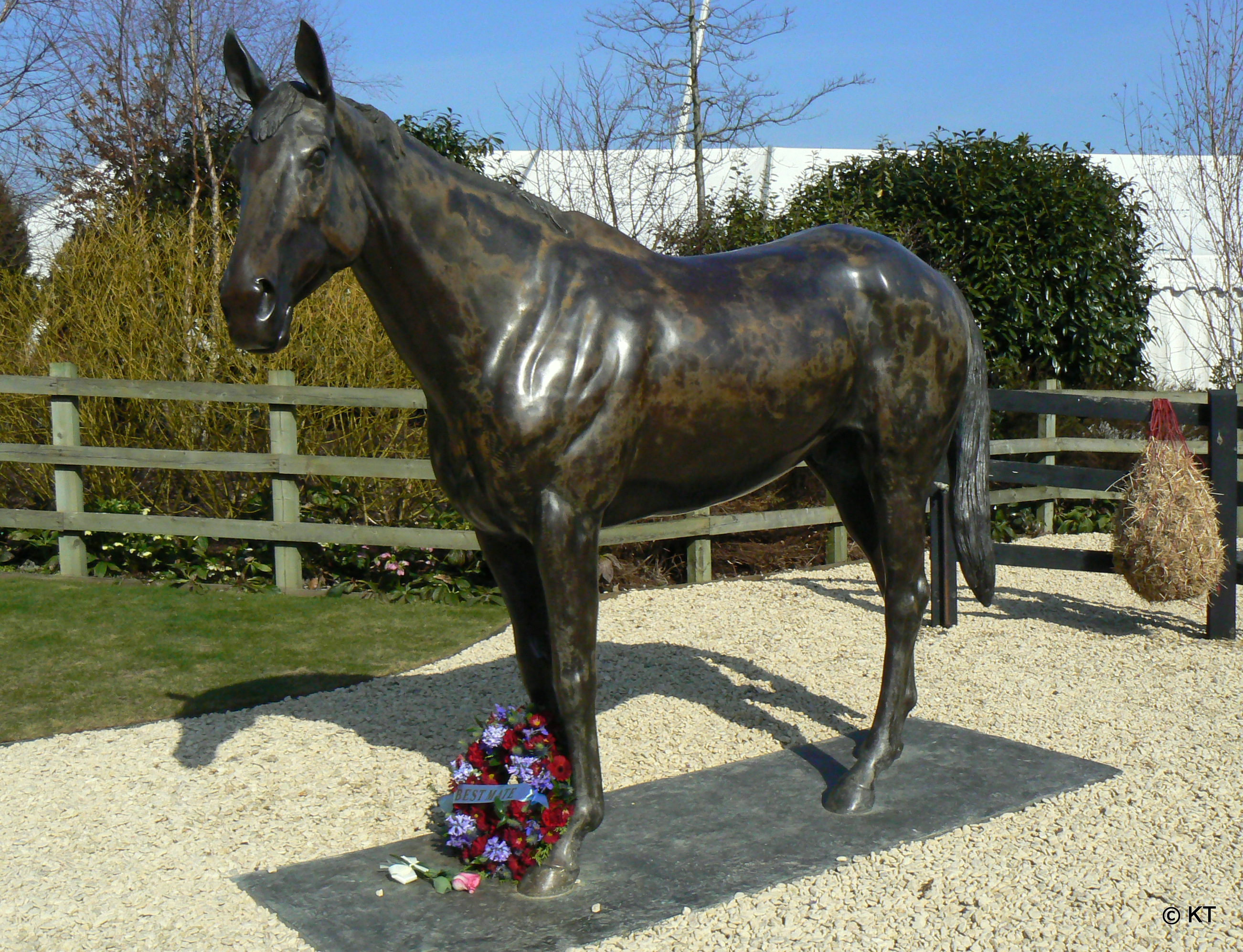 The 2010 Cheltenham Festival.